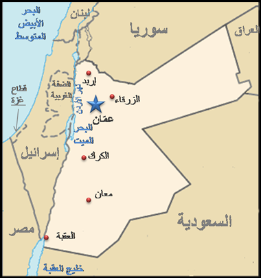 Map of Jordan Showing the location of Amman Translated by Producer